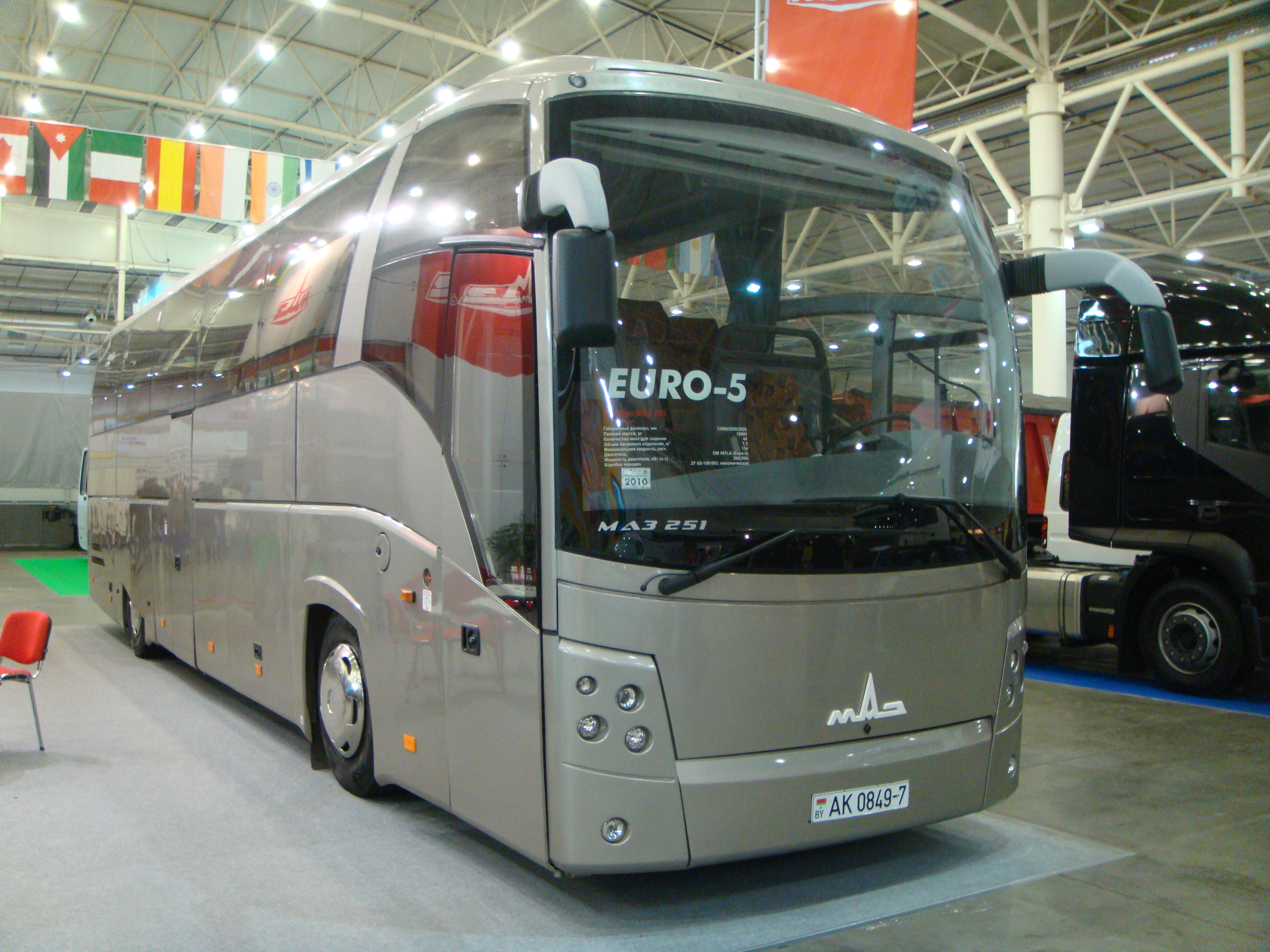 MAZ 251.050 coach in Kiev, Ukraine. TIR 2010 motorshow.